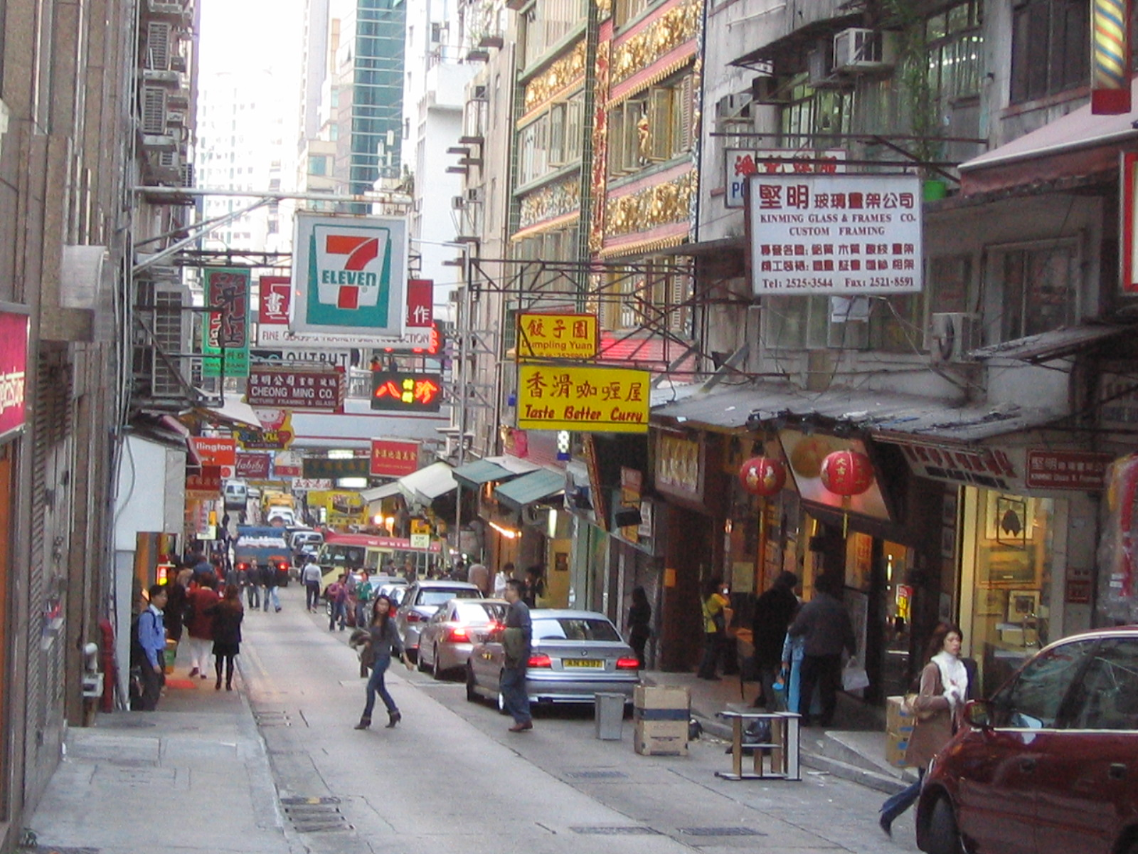 Wellington Street, Central, Hong Kong.